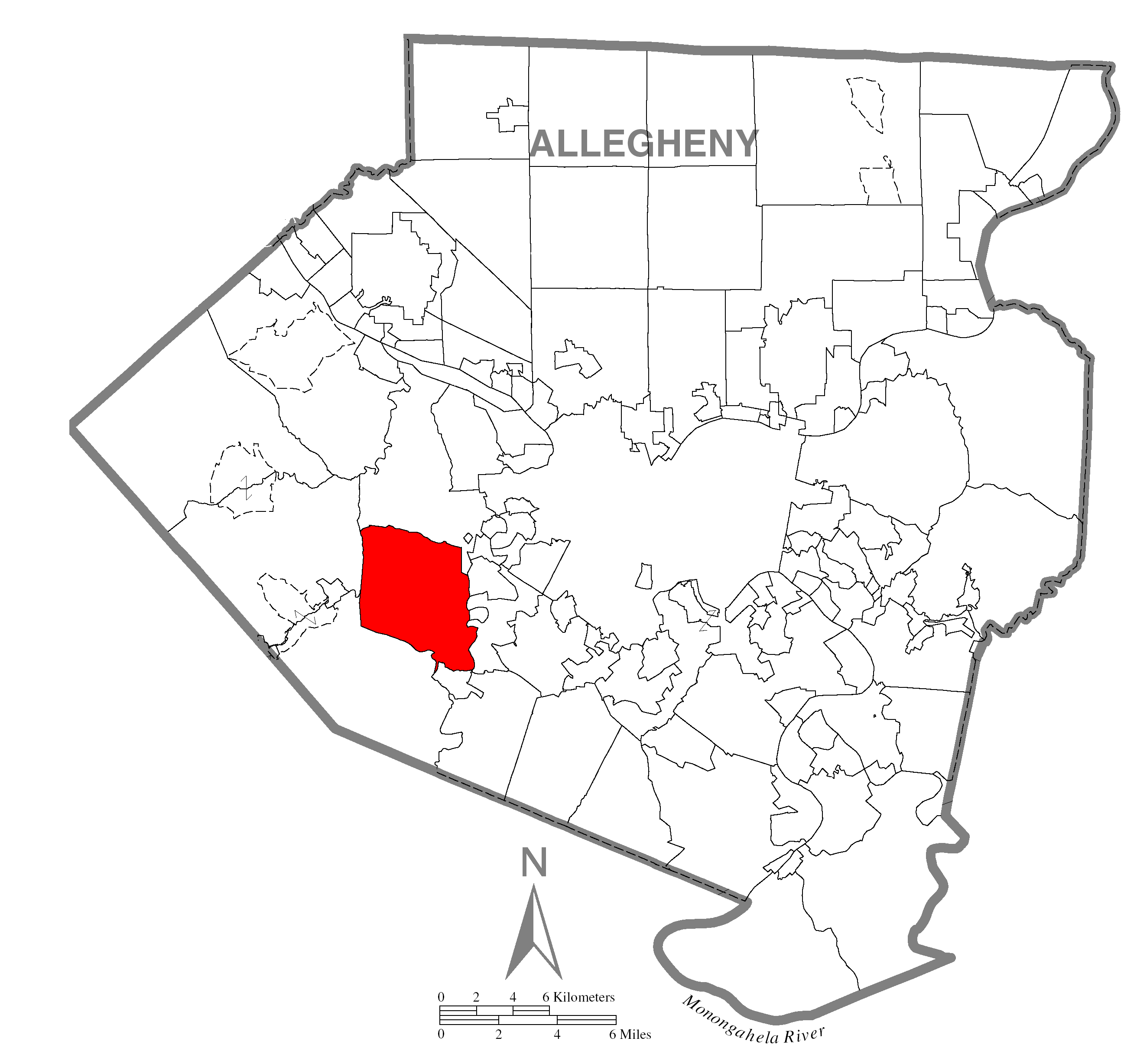 A map of Allegheny County showing Collier Township, Pennsylvania (alternate) highlighted on the map.